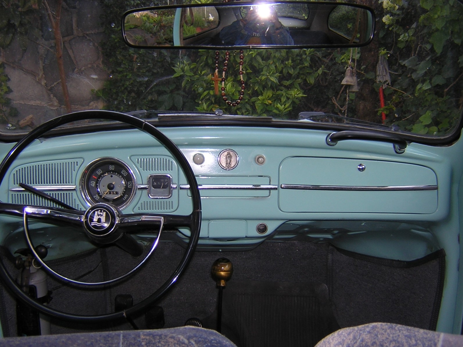 Slightly modified interior of a 1969 Mexican VW Bug. Taken by myself using a Nikon Coolpix 2100 camera. -Commanderraf